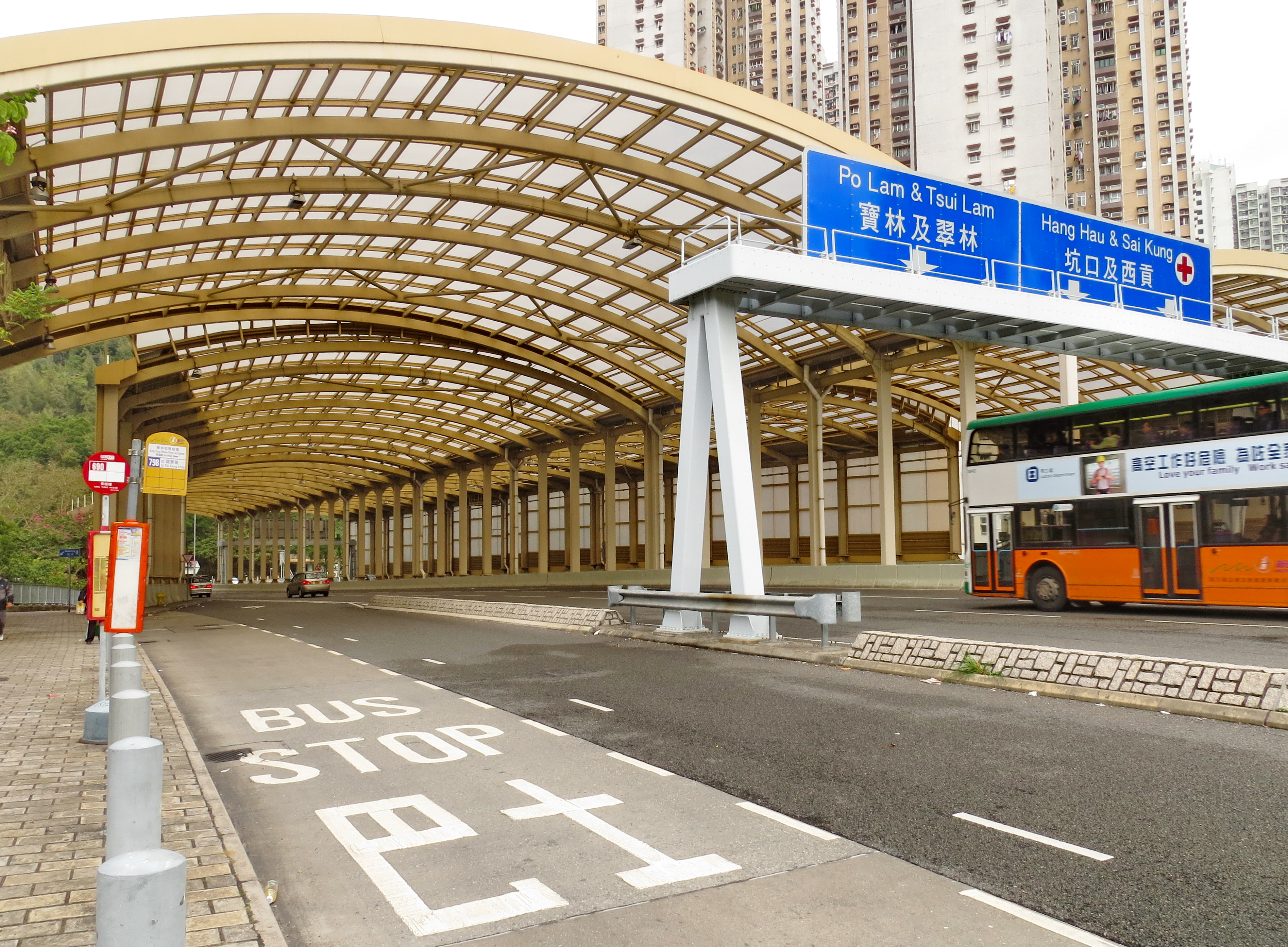 Po Shun Road, Tseung Kwan O, Hong Kong.